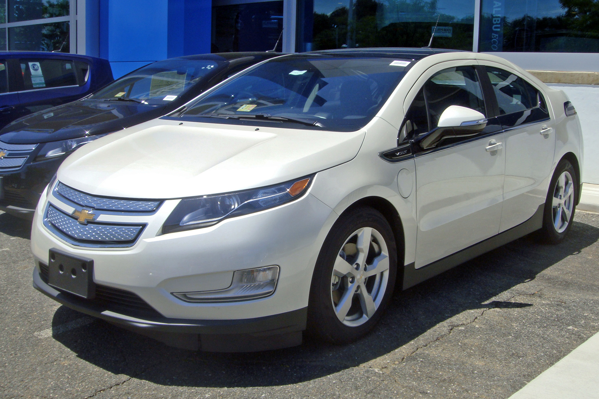 2012 Chevrolet Volt plug-in hybrid in Alexandria, Virginia, US